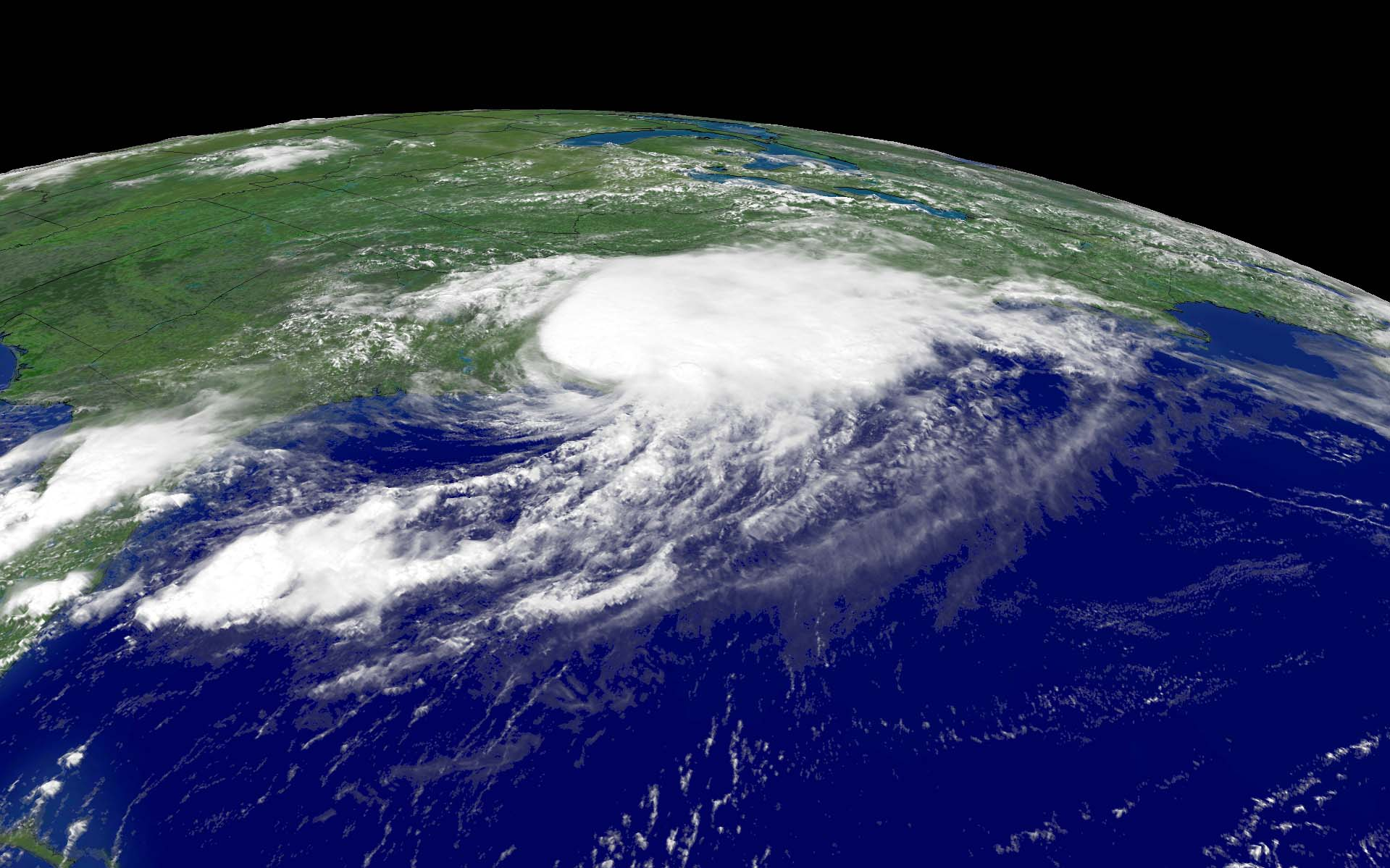 The angled image of Hurricane Charley was taken by a National Oceanic and Atmospheric Administration satellite at 12:45 p.m. EDT on August 14, en:2004. As seen above, the storm came ashore in the United States three times: over Florida and twice over South Carolina, near the SC/NC border, which is seen here.